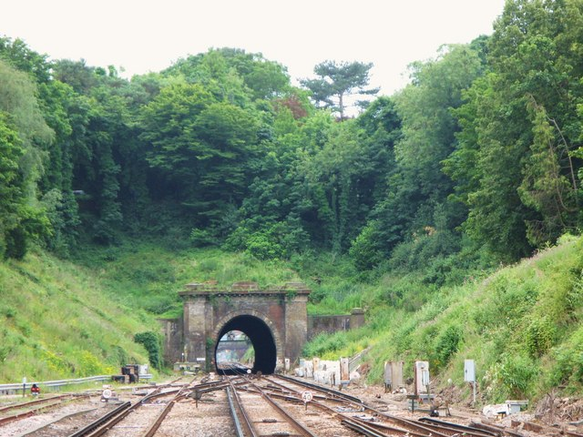 Haywards Heath tunnel